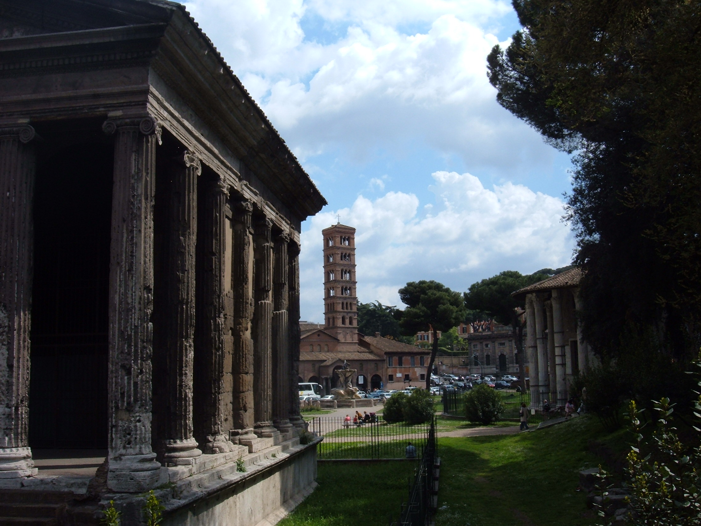 Forum Boarium, Rome 2005, Temple of Portunus on the left, The Temple of Hercules in the background.